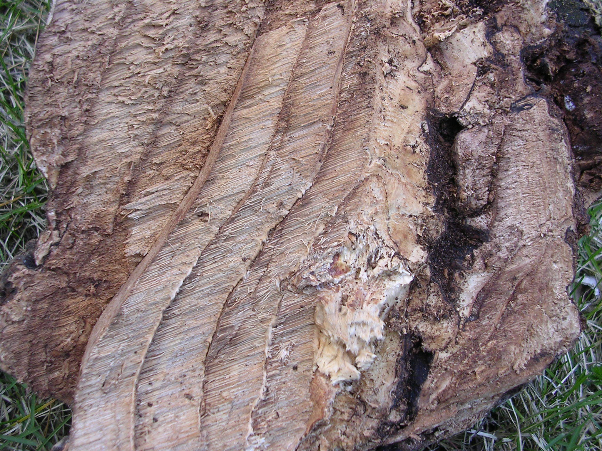 Piemontèis: Section of Perenniporia Fraxinea (Bull.) Ryvarden